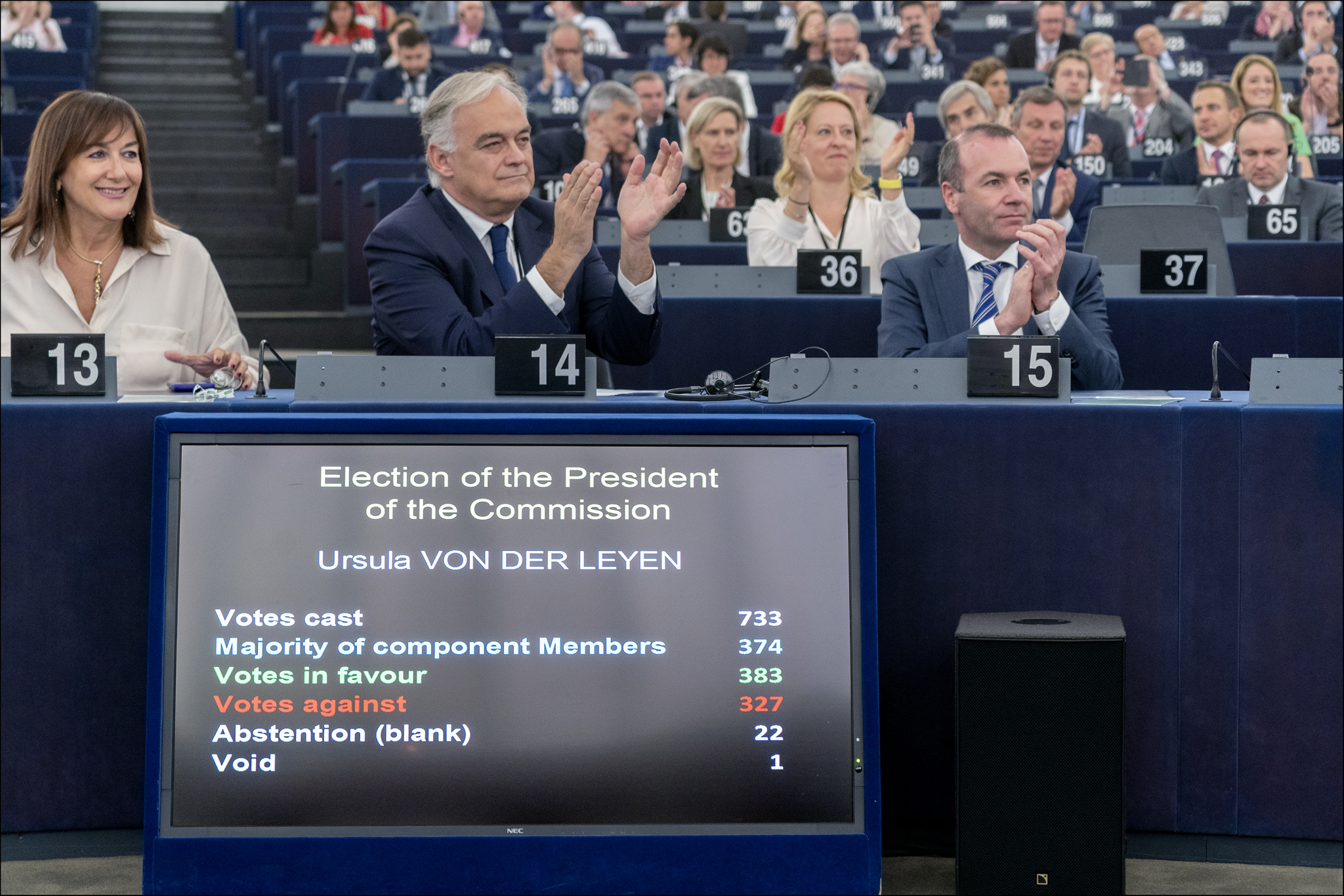 With 383 votes in favour, the European Parliament elected Ursula von der Leyen President of the next European Commission in a secret ballot on 16 July. She is set to take office on 1 November 2019 for a five-year term. There were 733 votes cast, one of which was not valid. 383 members voted in favour, 327 against, and 22 abstained. Parliament currently comprises 747 MEPs as per the official notifications received by member state authorities, so the threshold needed to be elected was 374 votes, i.e. more than 50% of its component members. President Sassoli formally announced the requisite number before the results were revealed in plenary. The vote was held by secret paper ballot. Read more: This photo is free to use under Creative Commons license CC-BY-4.0 and must be credited: "CC-BY-4.0: © European Union 2019 – Source: EP". No model release form if applicable. For bigger HR files please contact: webcom-flickr(AT)